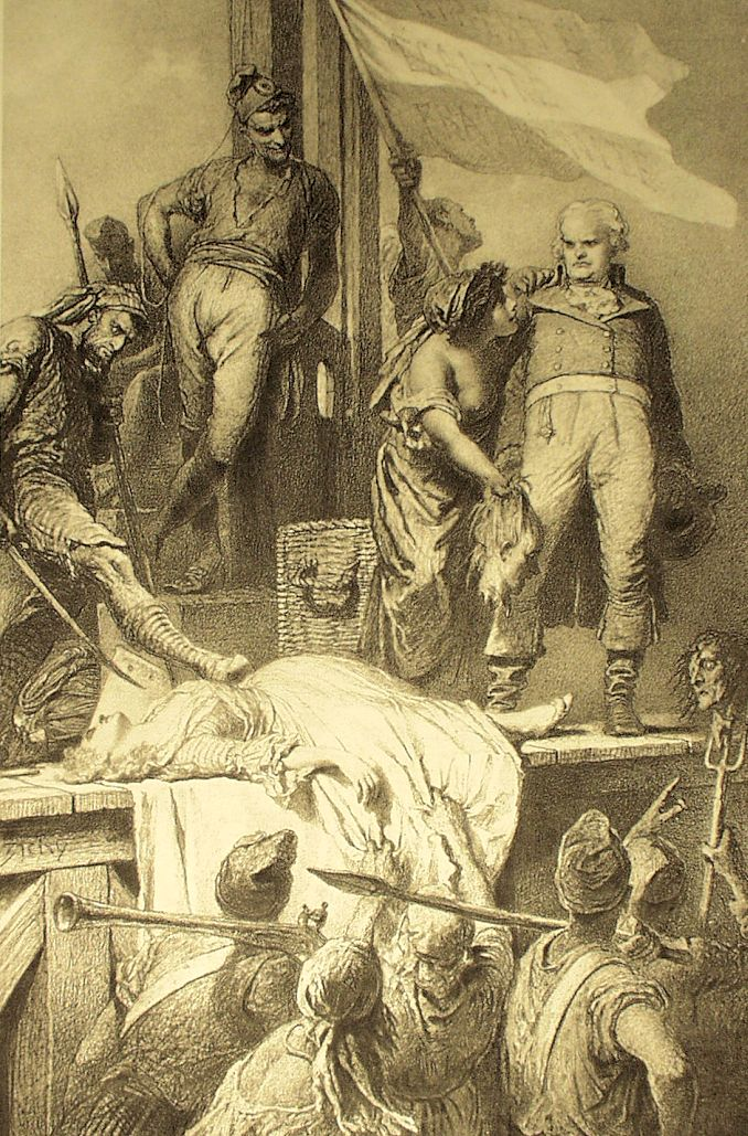 Mihály Zichy - Illustration to Imre Madách's The Tragedy of Man - In Paris (Scene 9)